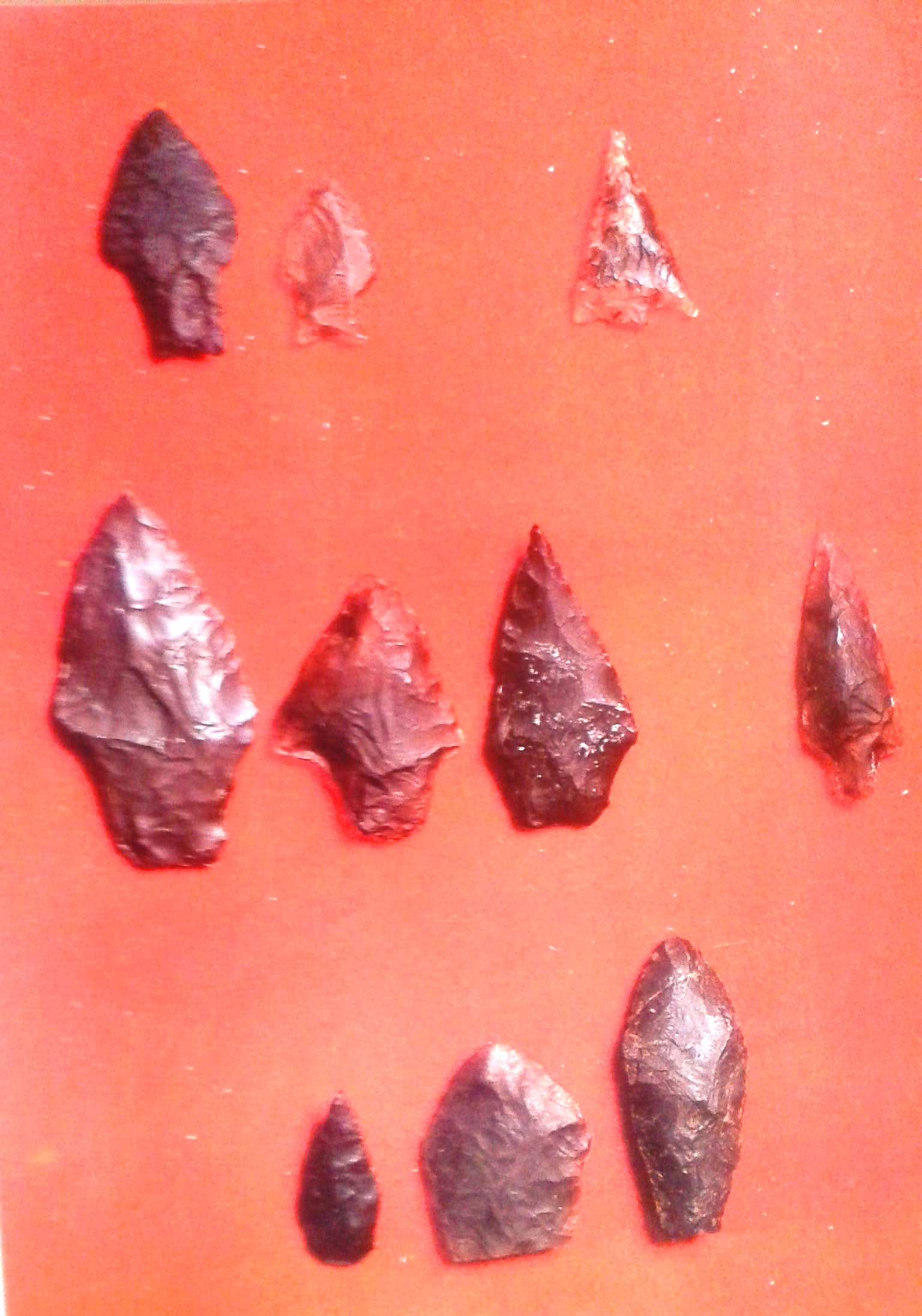 El Inga points